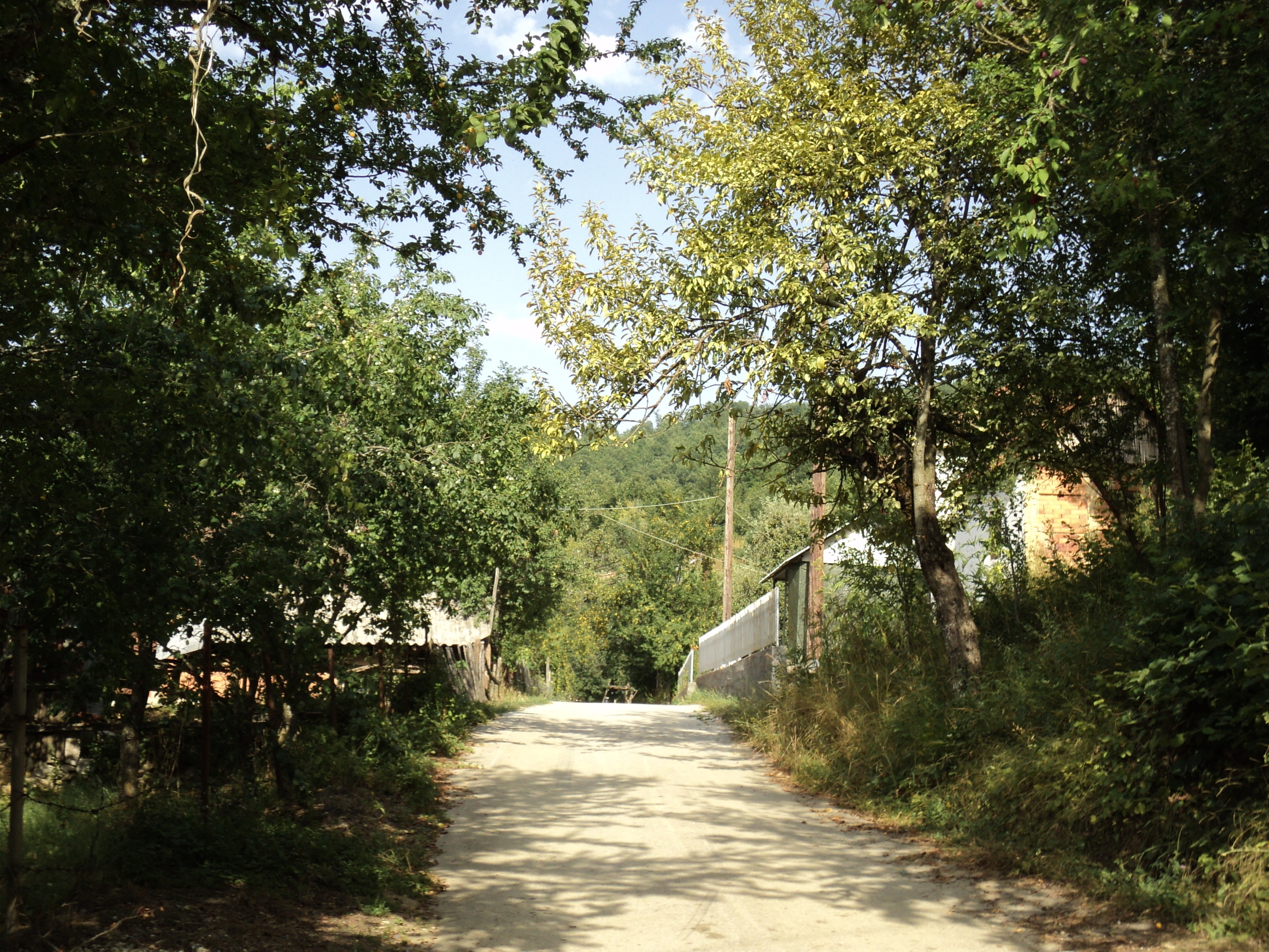 View at the village of Podvis, near Kičevo.